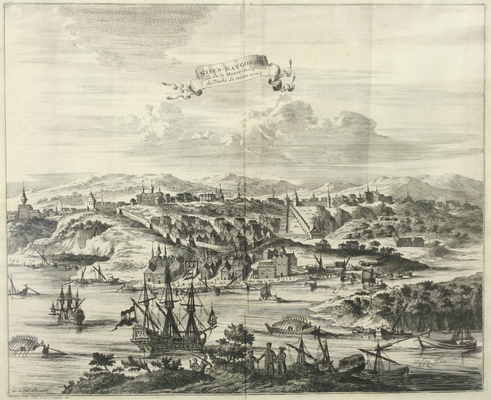 Nizhny Novgorod. City in Muscovy, the capital of the principality of the same name.